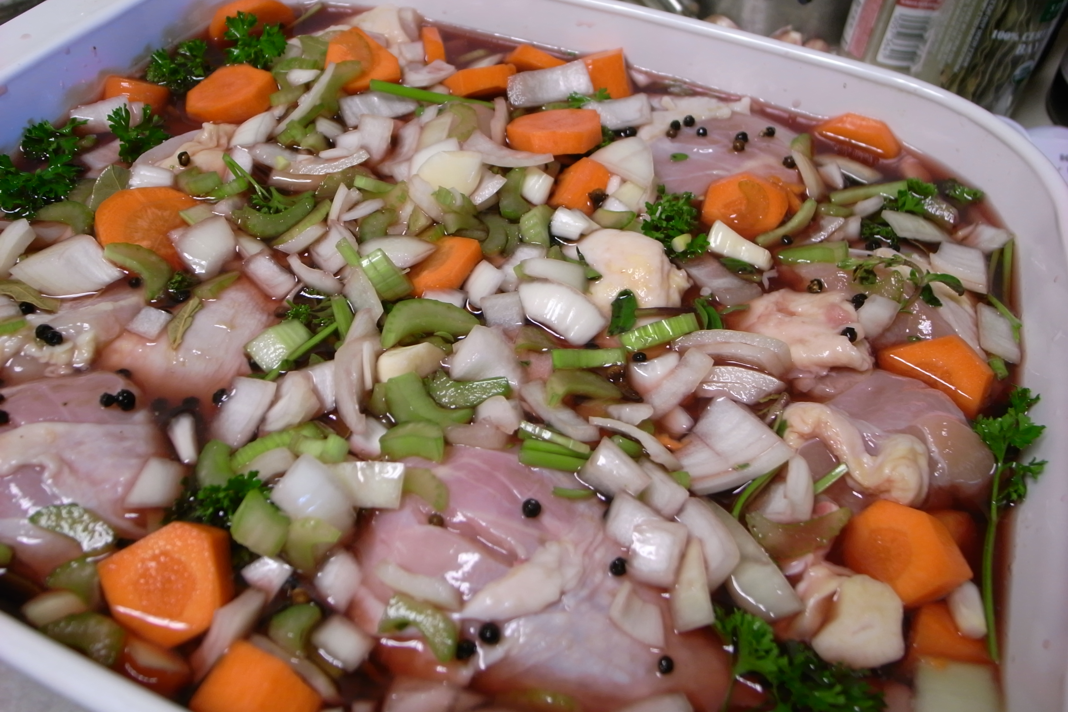 The chicken is marinated in a mix of red Burgundy wine, chopped vegetables (carrots, celery, onions, garlic) and some herbs (parsley, thyme, bay leaves) and spices (peppercorns and cloves).